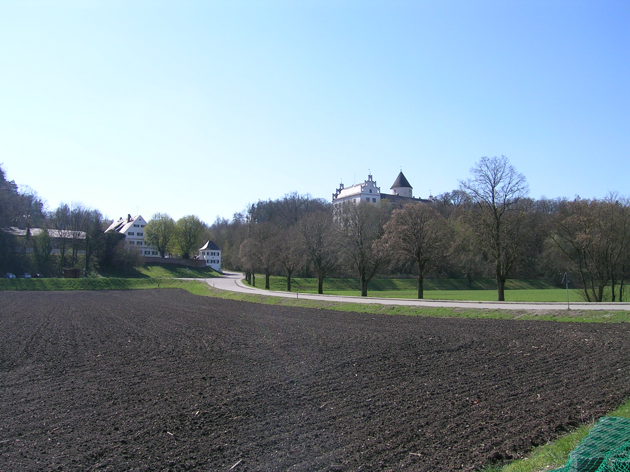 Schloss Kronwinkl (Alten-Preysing) mit Wirtschaft